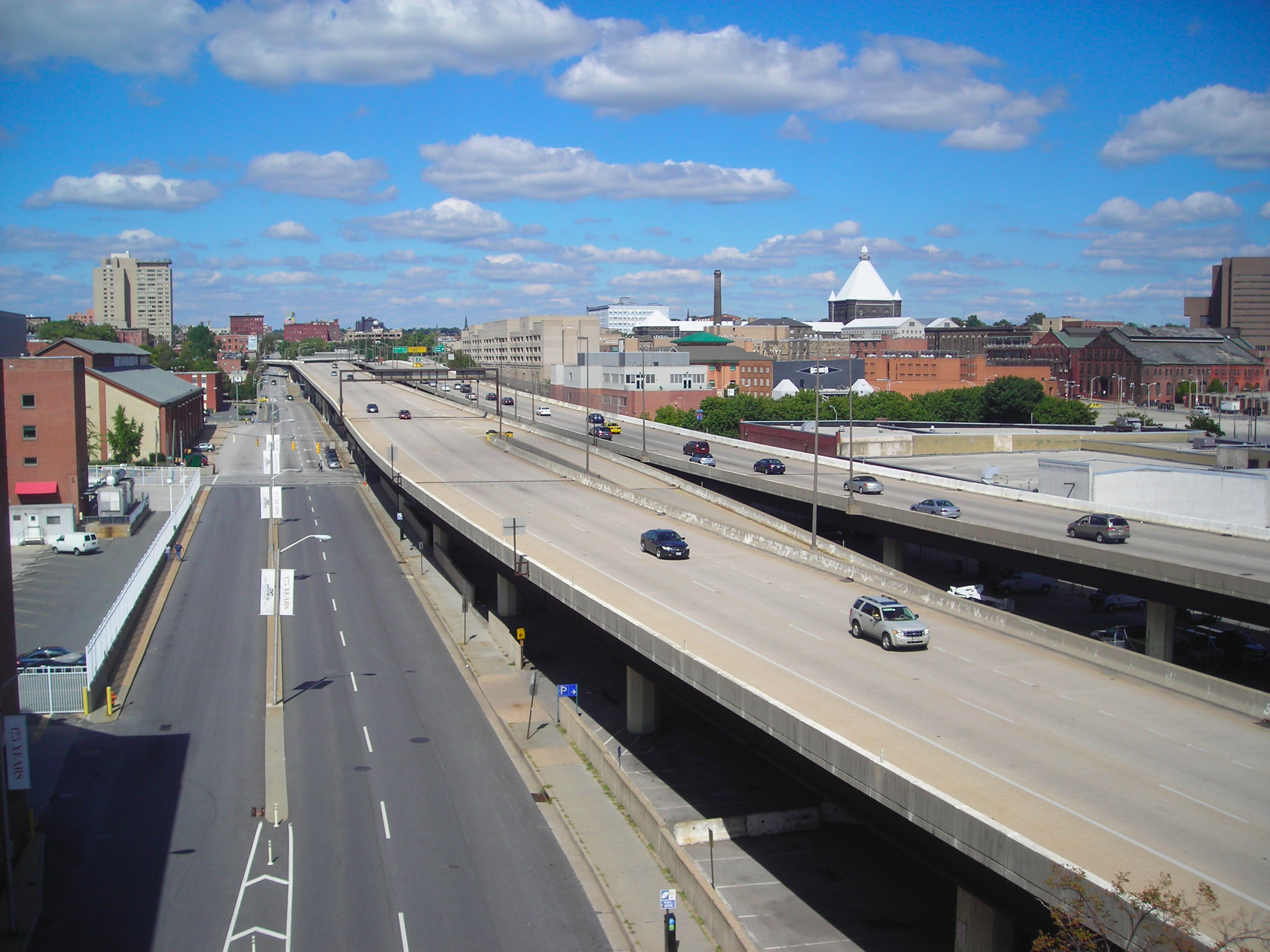 Photo of I-83 looking north from the Orleans Street bridge. To the east, the building with a white pyramidal roof is the old Maryland Penitentiary, at the center of Baltimore's prison district. Running alongside the highway, to the west, is Guilford Ave.